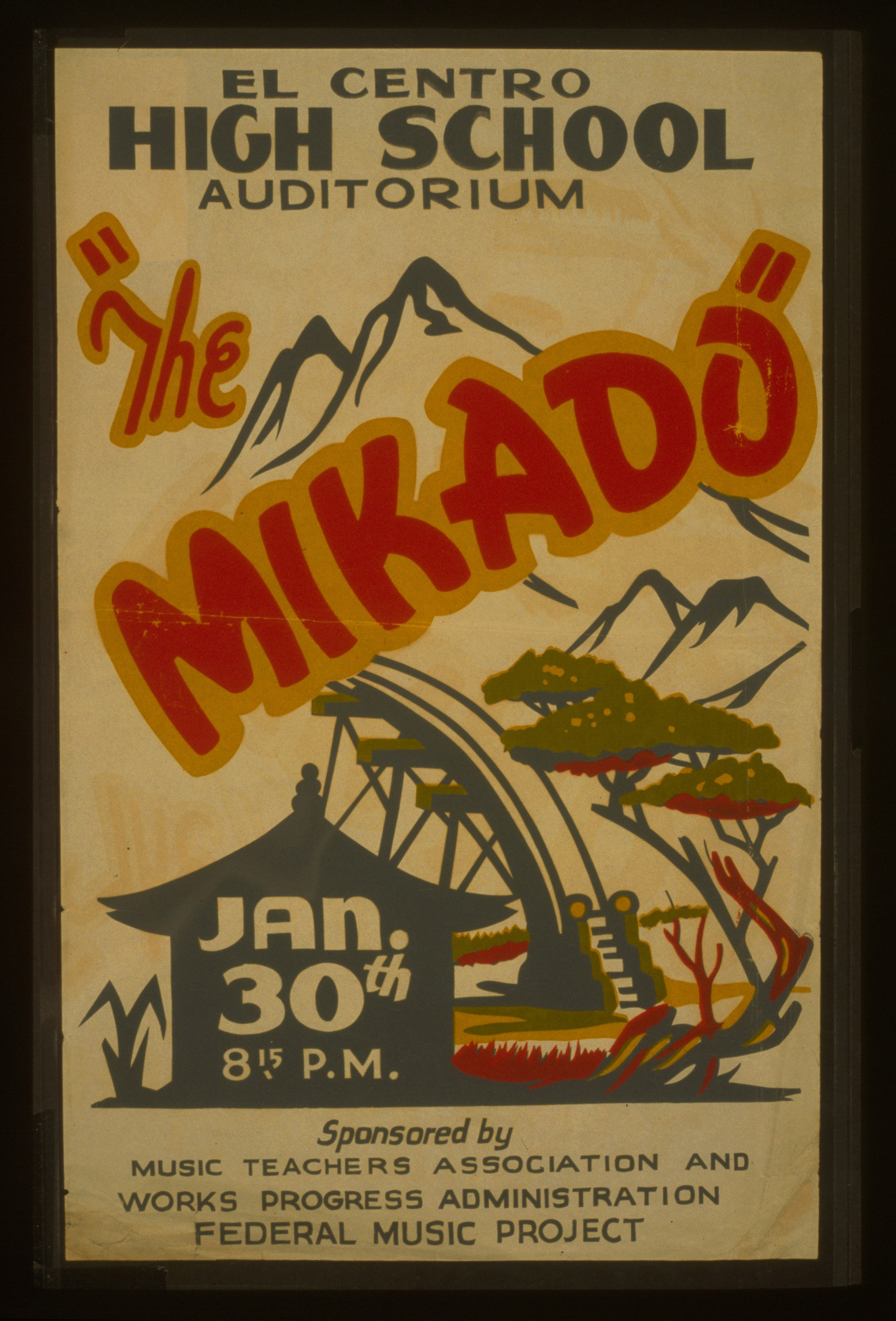 Title: "The Mikado" Abstract: Poster for Federal Music Project presentation of "The Mikado" at the El Centro High School auditorium, showing Japanese tea garden. Physical description: 1 print (poster) : silkscreen, color. Notes: Work Projects Administration Poster Collection (Library of Congress).; Sponsored by Music Teachers Association.